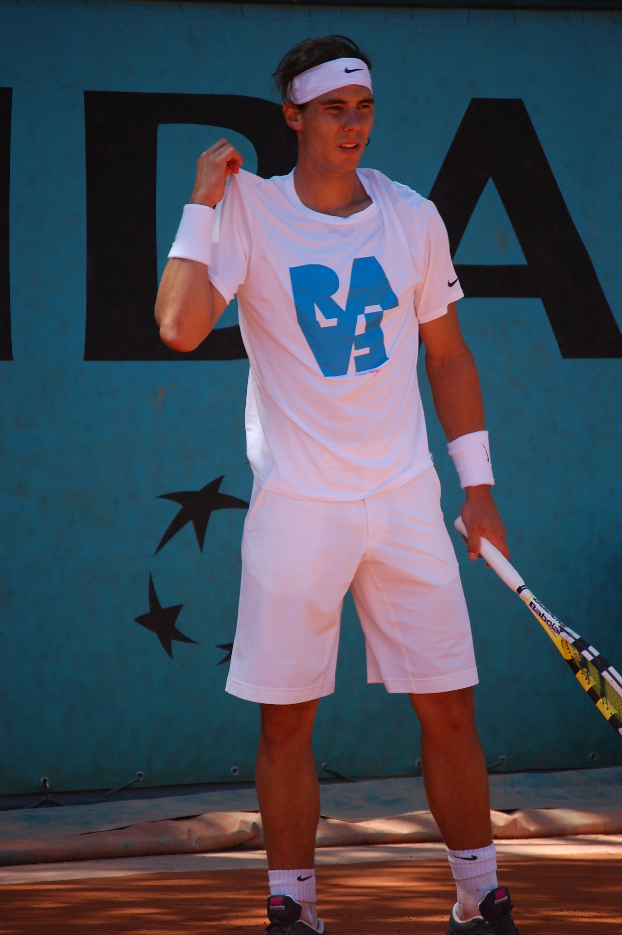 Rafael Nadal training in Roland Garros, 2009 French Open